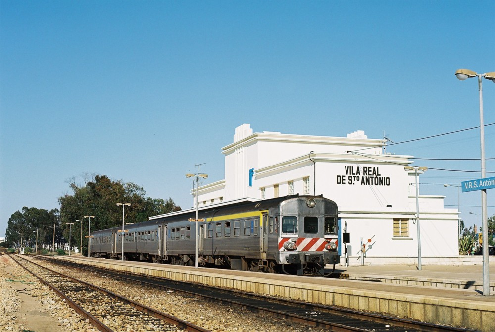 the train type 0600 (train no. 609) in Vila Real do Santo António, Portugal